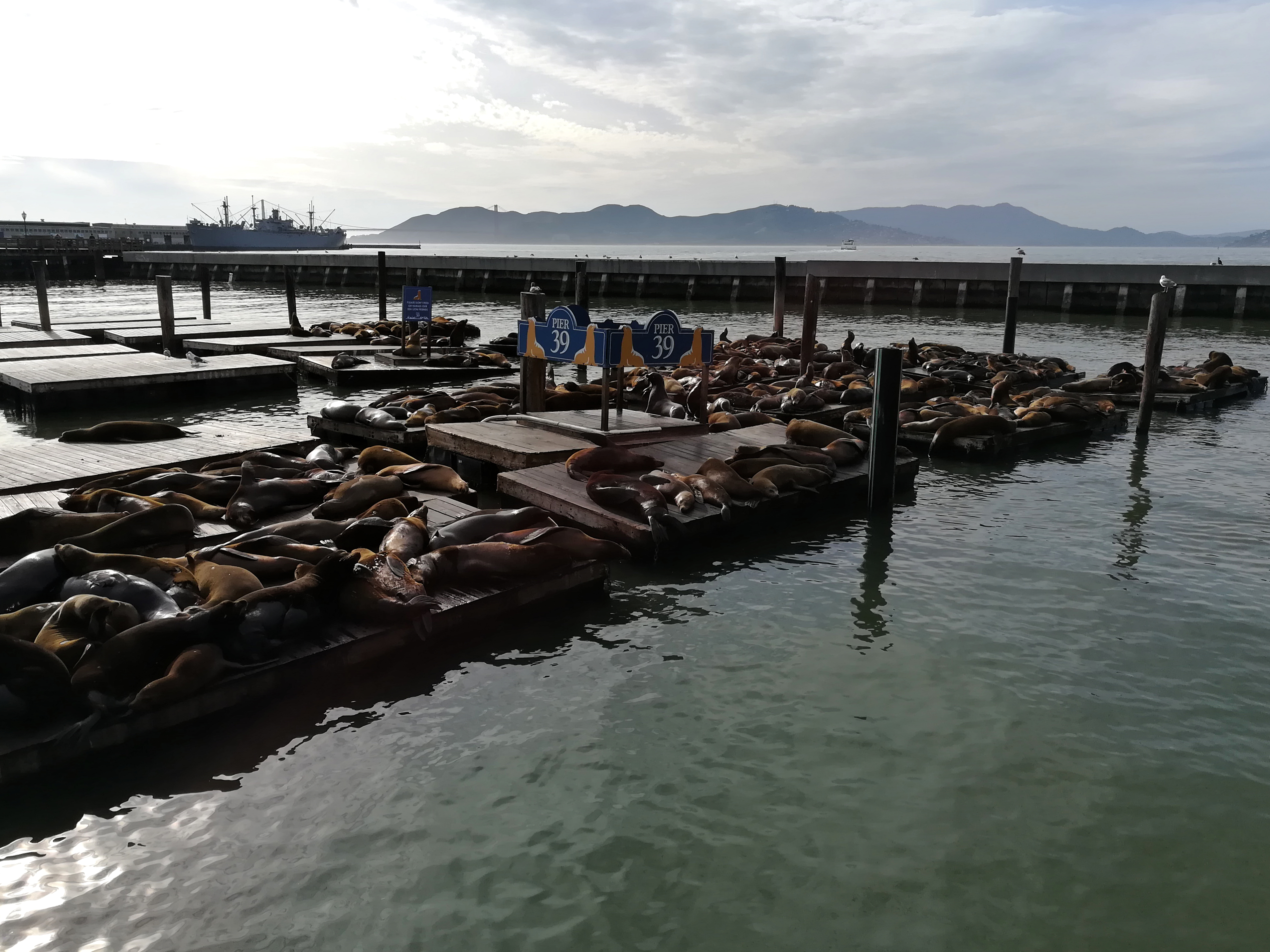 Seals at Pier 39 in San Francisco